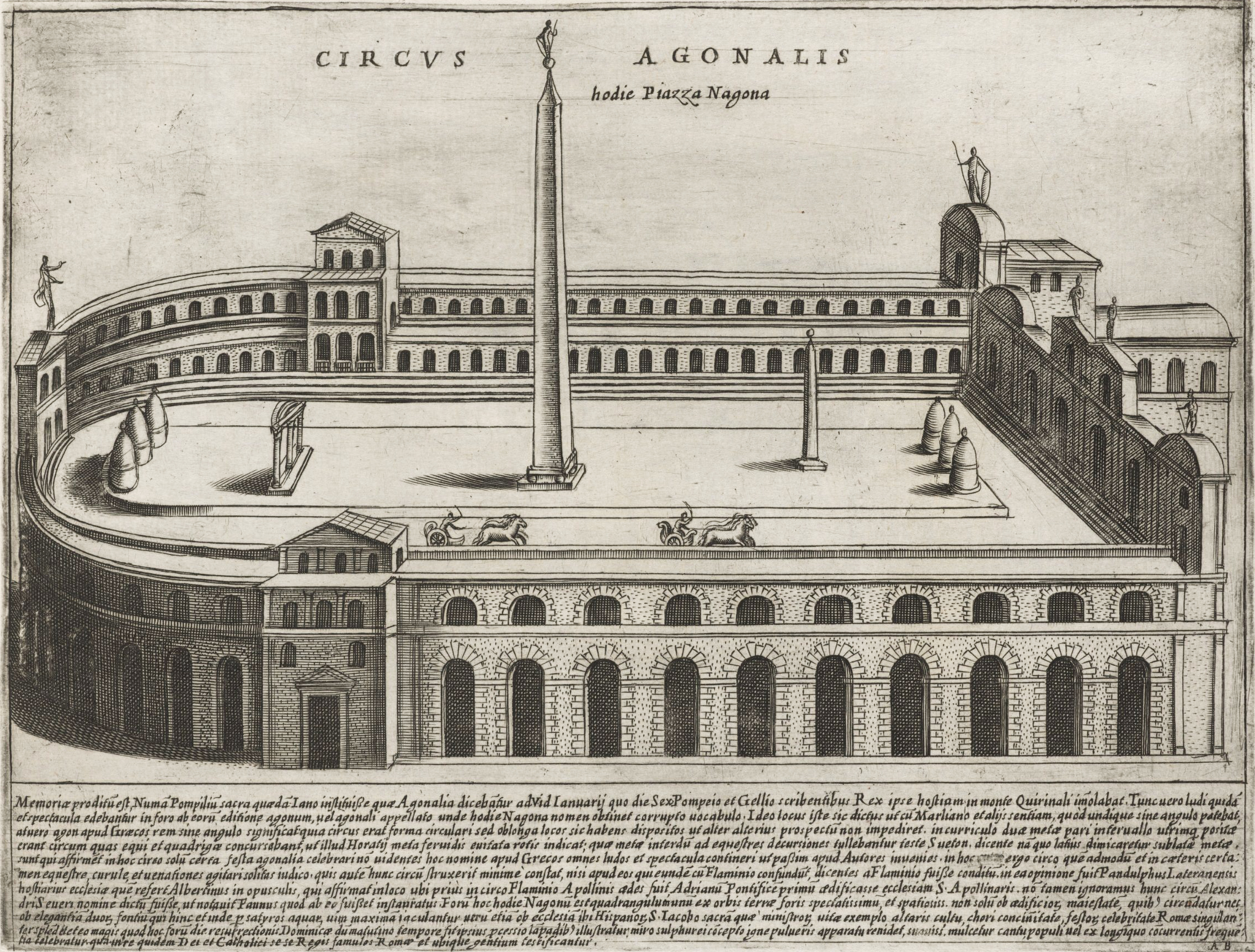 "Circus agonalis", by Giacomo Lauro, from Antiquae urbis splendor, Rome: 1610. AH 8676.3*, Houghton Library, Harvard University